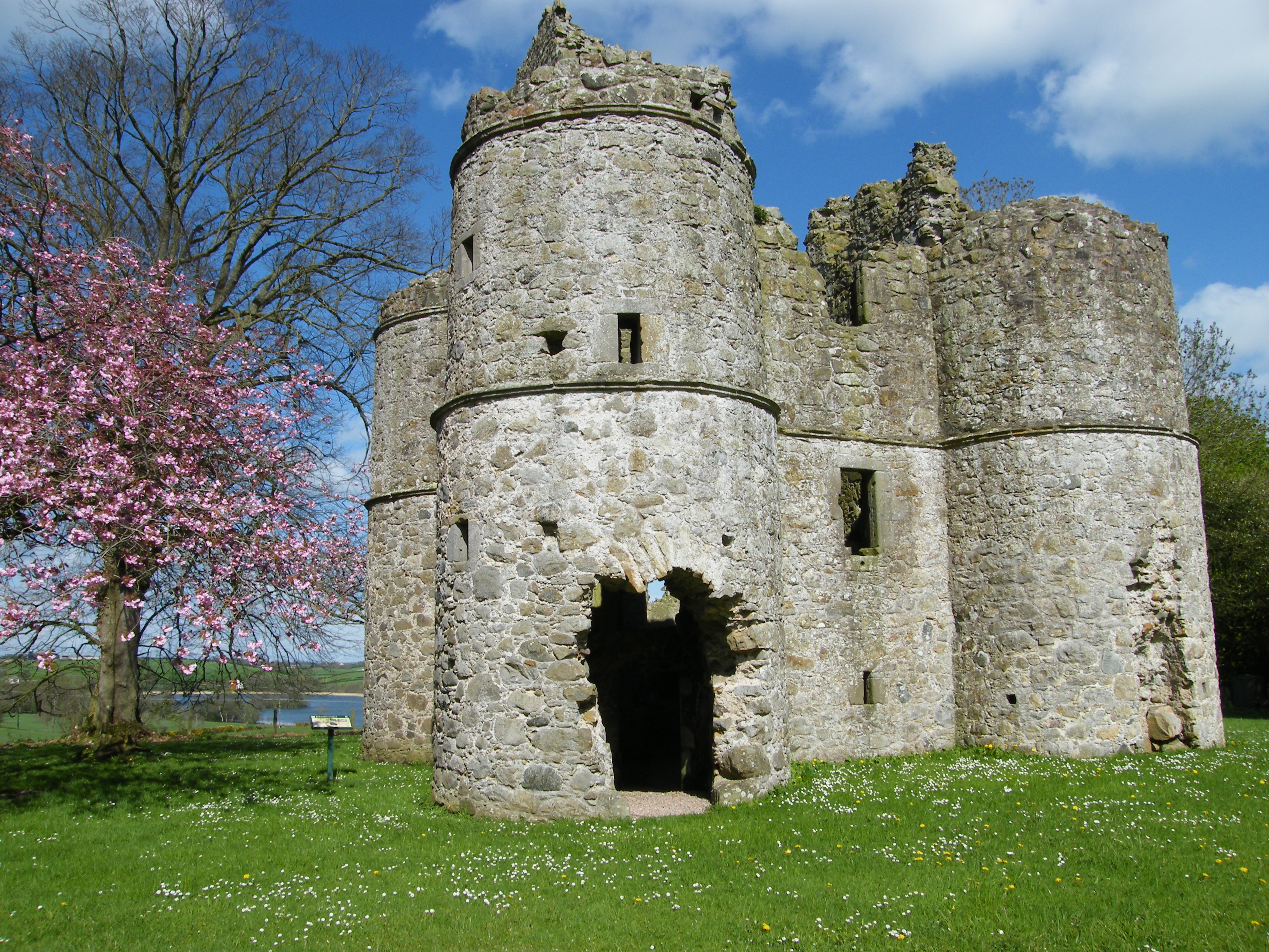 Roughan Castle